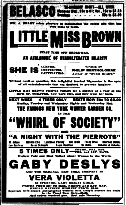 Al Jolson stars in The Whirl of Society in Washington DC in 1912.